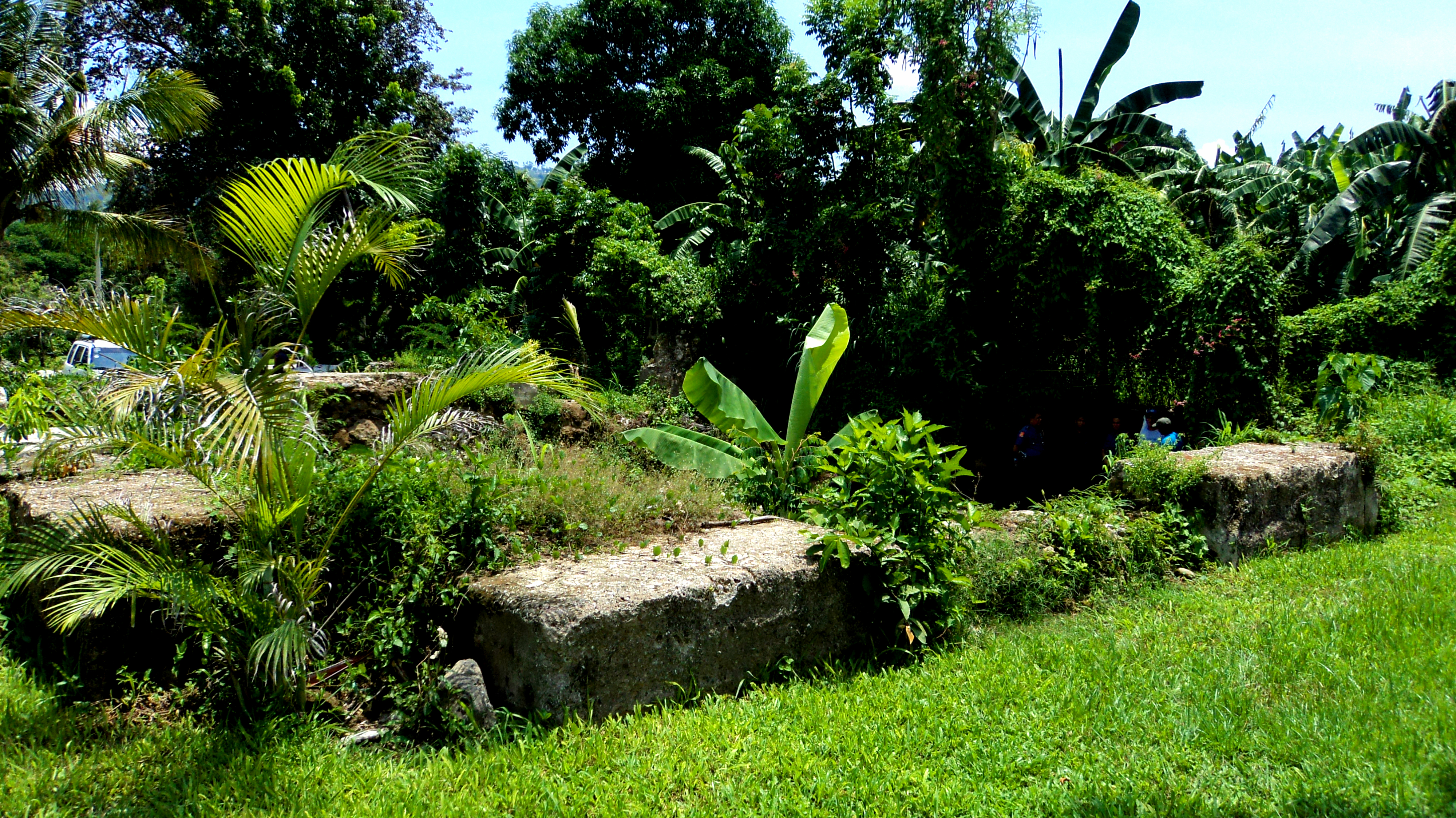 Ruins of Old Tanauan Church in Talisay (2010 photo)